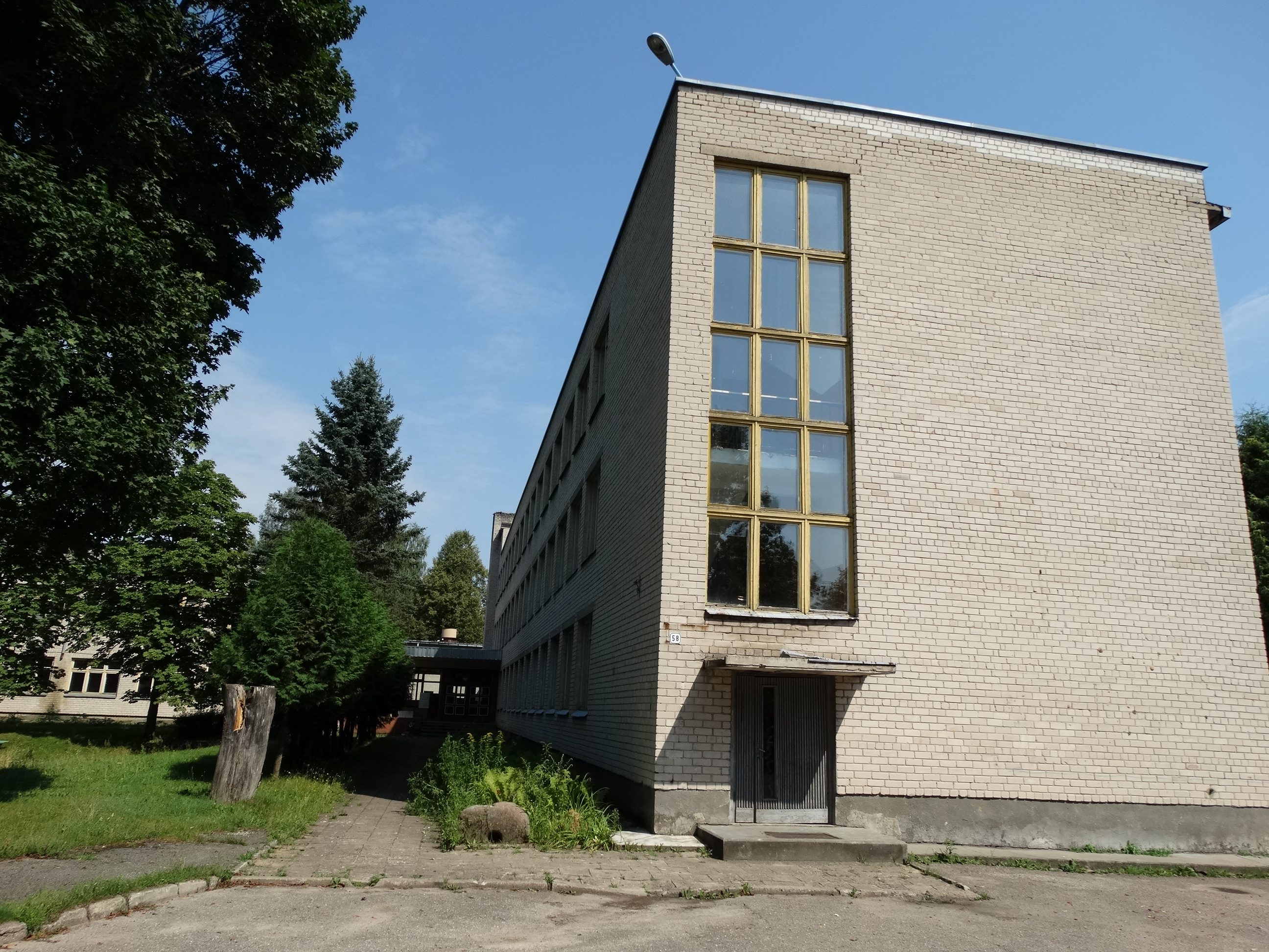 Former school in Tauragnai, Utena District, Lithuania